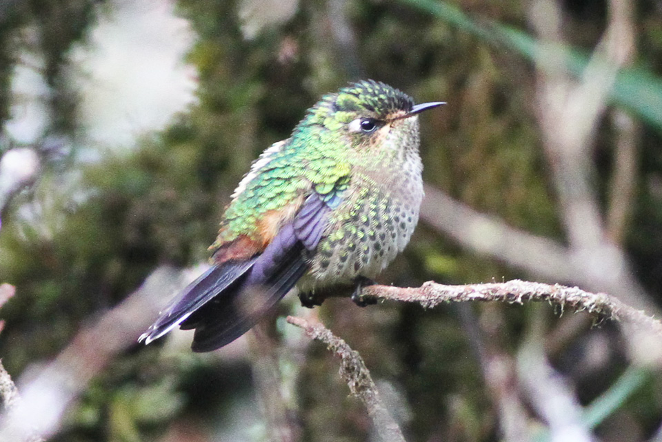 Purace National Park,Cauca